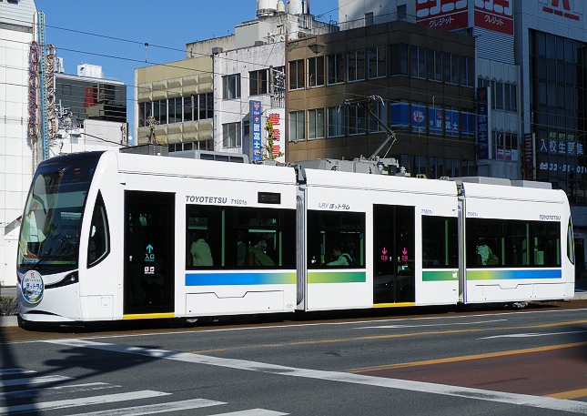 Electric multiple unit type T1000 of Toyohashi railway co.Ltd, Toyohashi Sta., Japan.